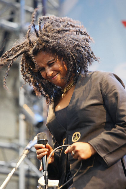 Susheela Raman performing in Paris Plage, 2007